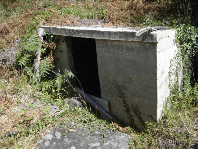 O Reboledo (Ourense)